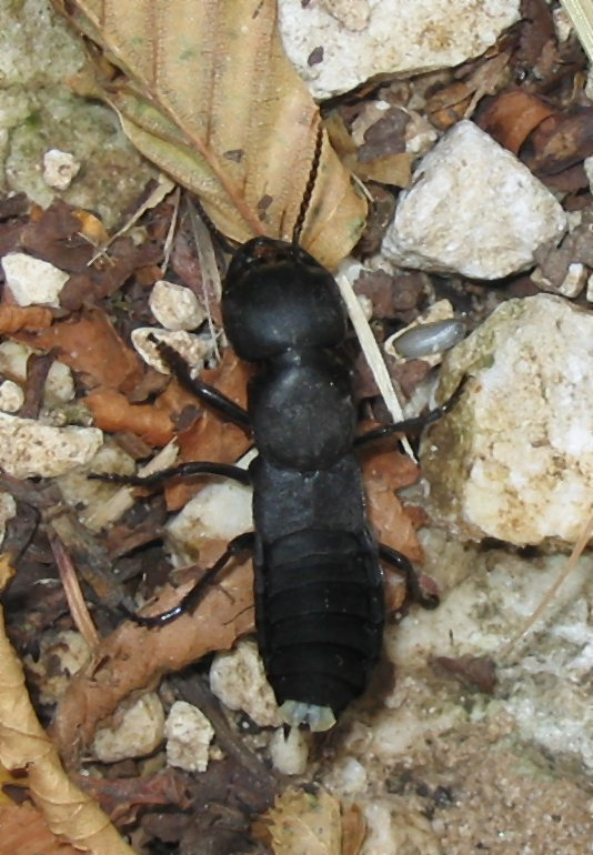 Photo of Ocypus olens (=Staphylinus olens)) showing the two white stinking glands on the abdomen (taken in mount Summano, in the italian Alps)